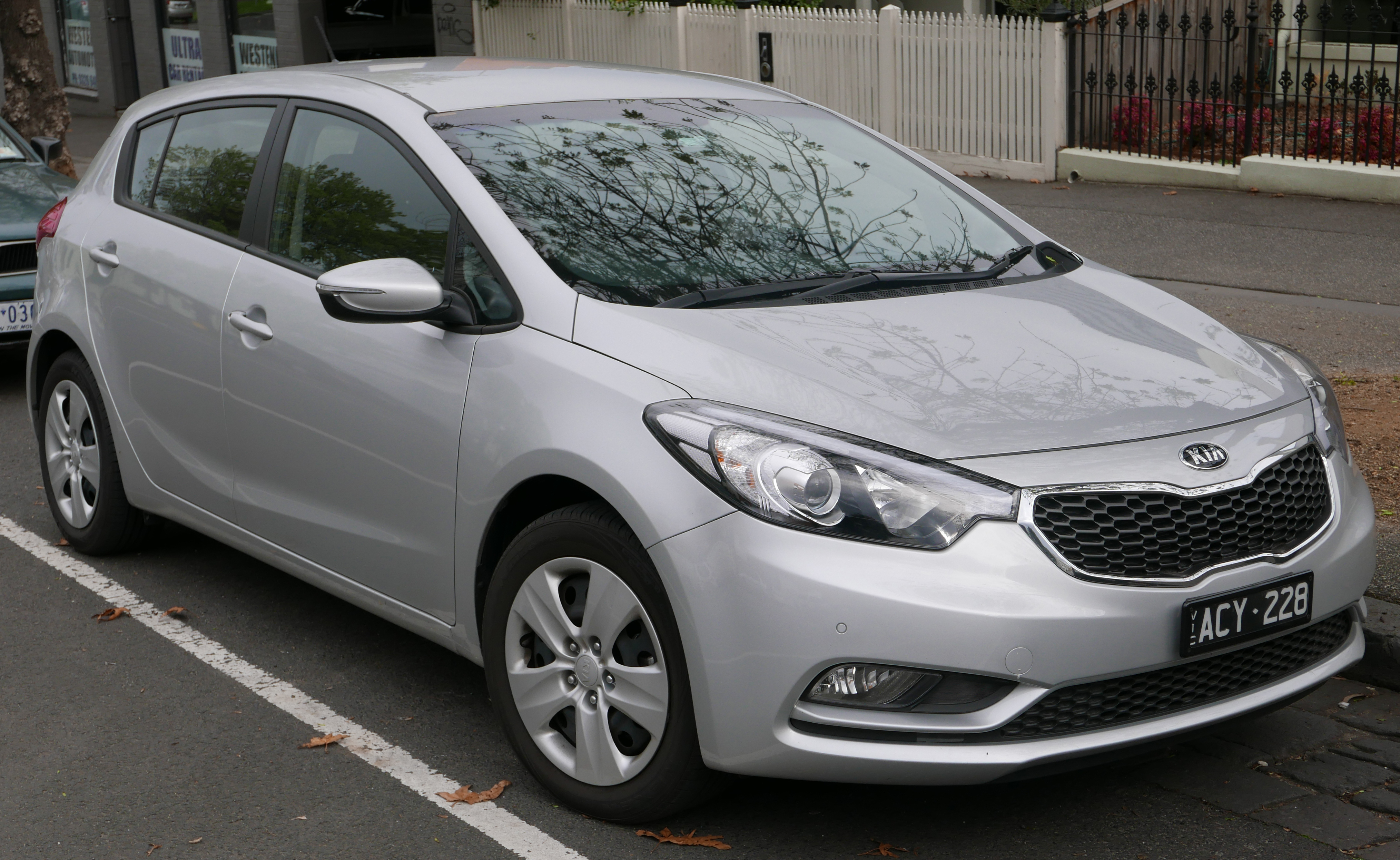 2014 Kia Cerato (YD MY15) S hatchback. Photographed in West Melbourne, Victoria, Australia. Vehicle registration enquiry resultsJurisdictionVictoriaRegistrationACY228Chassis codeKNAFK516MF5337865Engine codeG4NBEH092427Compliance date2014-11Year of manufacture2014